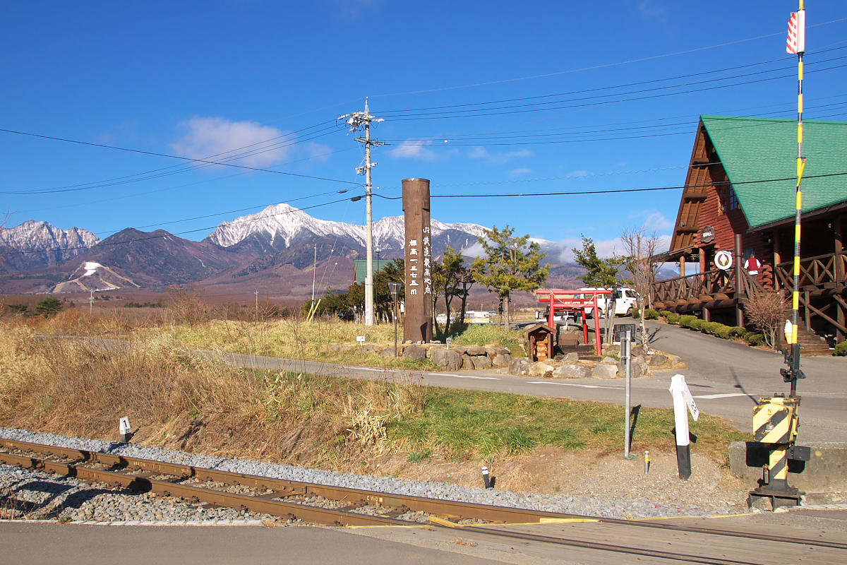 The highest point of JR on the Koumi Line